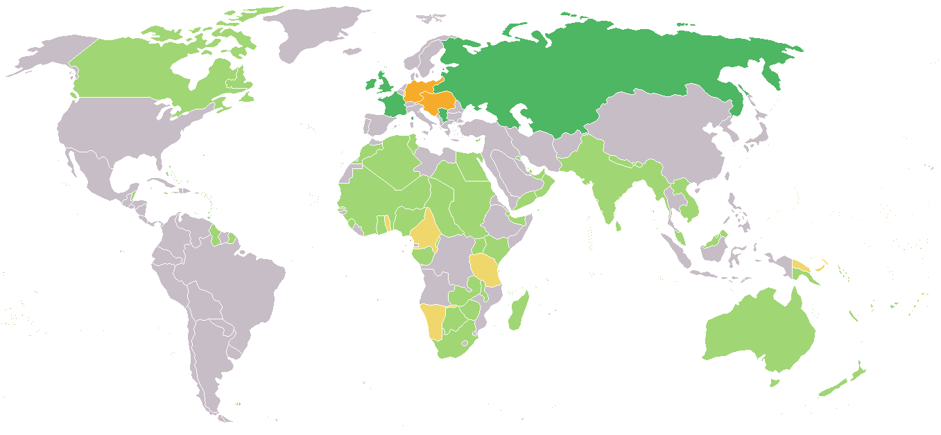 Allies and central powers in the first world war, 4 August 1914 (at that stage allies were Serbia, Russia, France and Britain, central powers were Austria-Hungary and Germany). Allies Allied colonies, dominions or occupied territory Central powers Central powers' colonies or occupied territory